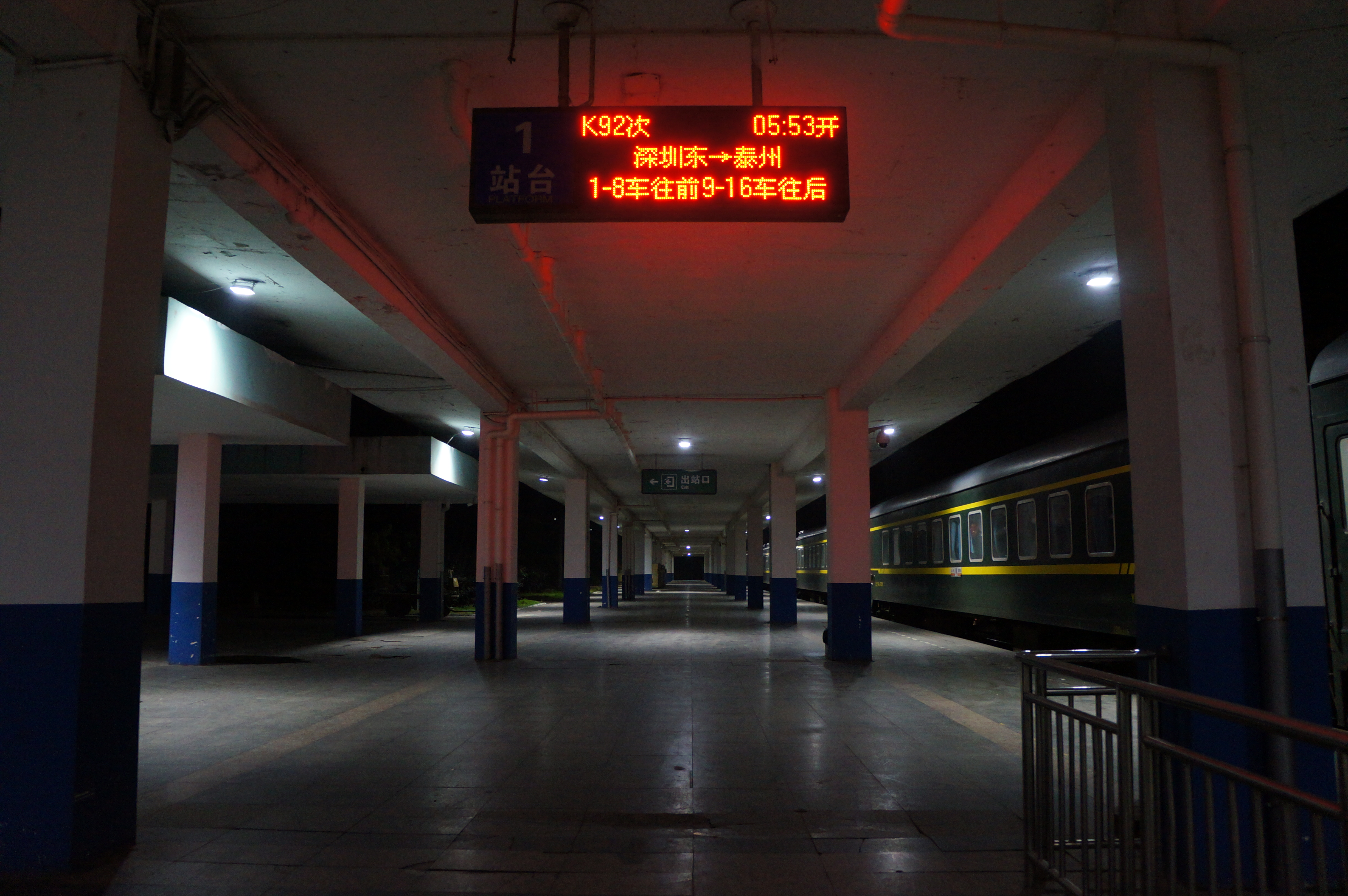 201612 K92 on the platform 1 of Xiangtang Station